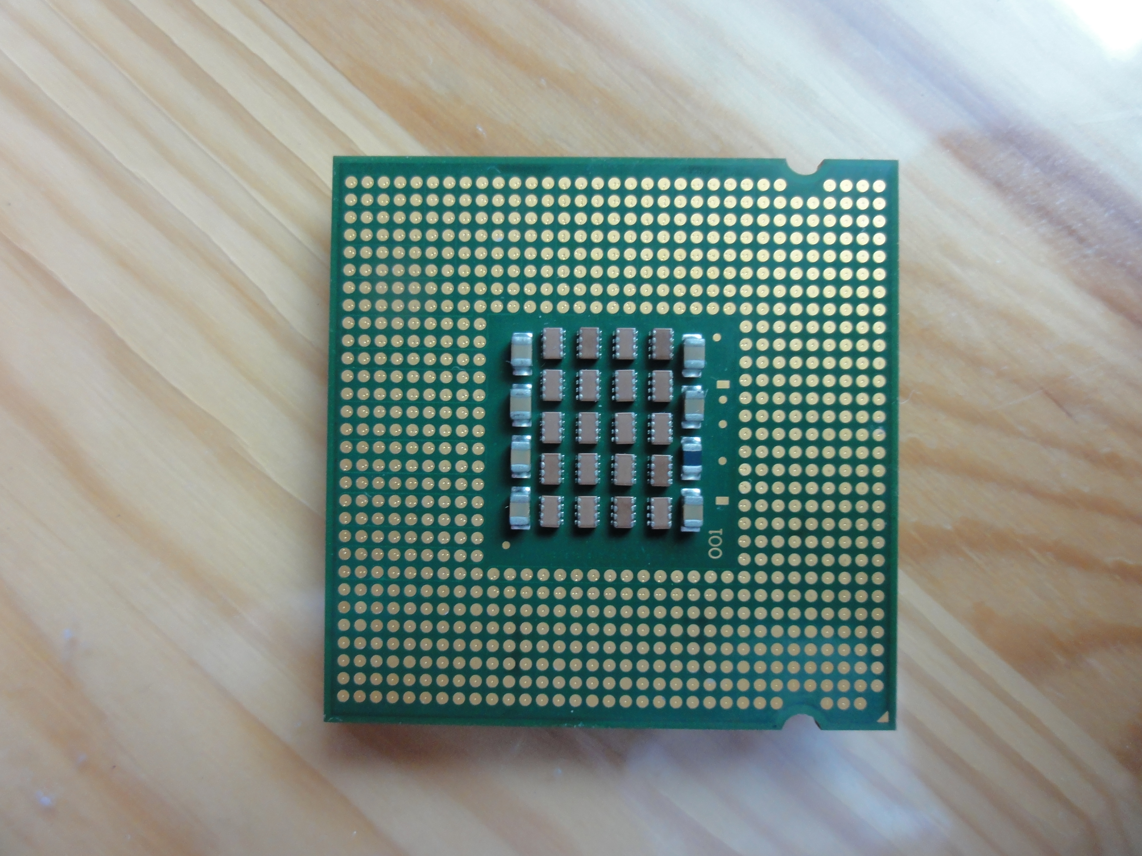 The back side of a LGA 775 Pentium D 805中文（中国大陆）: 奔腾D 805的背面